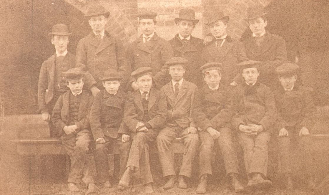 Louis Davis (1871 Abingdon School dayboys) David is front row, second from left